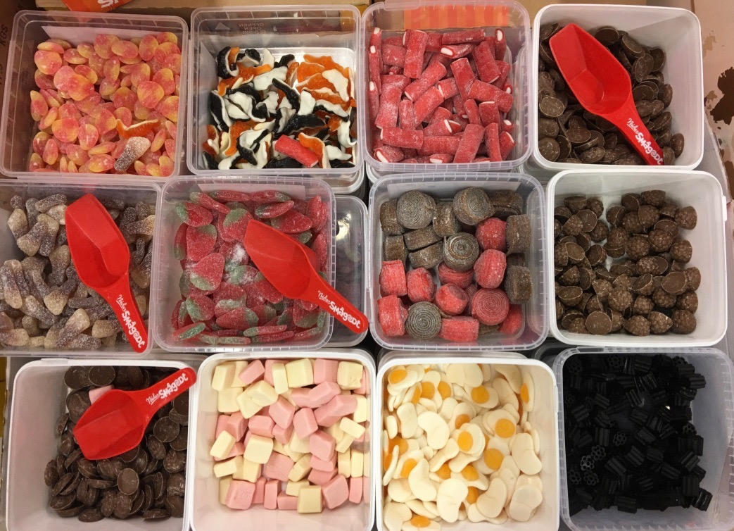 Confetionery from Nidar for sale at EXTRA Coop (Norwegian discount supermarket chain) in Tjøme, Norway, November 2017.